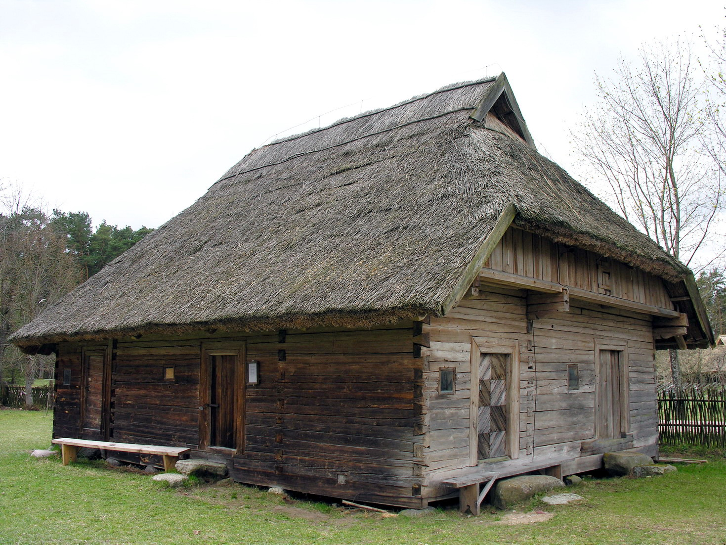 Zemaiciu barn, Lithuania in April 2007